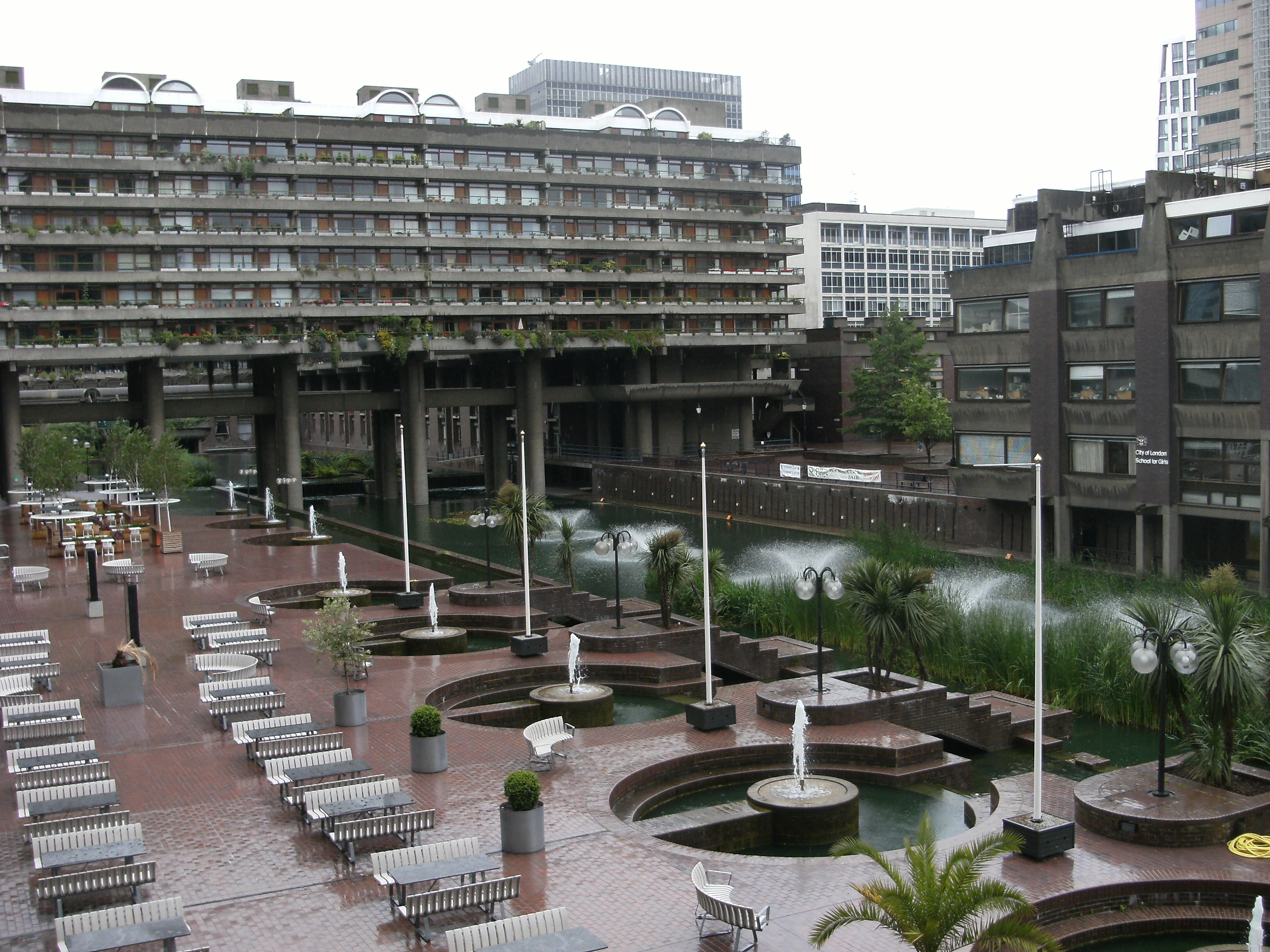 2011-06-05 in London.